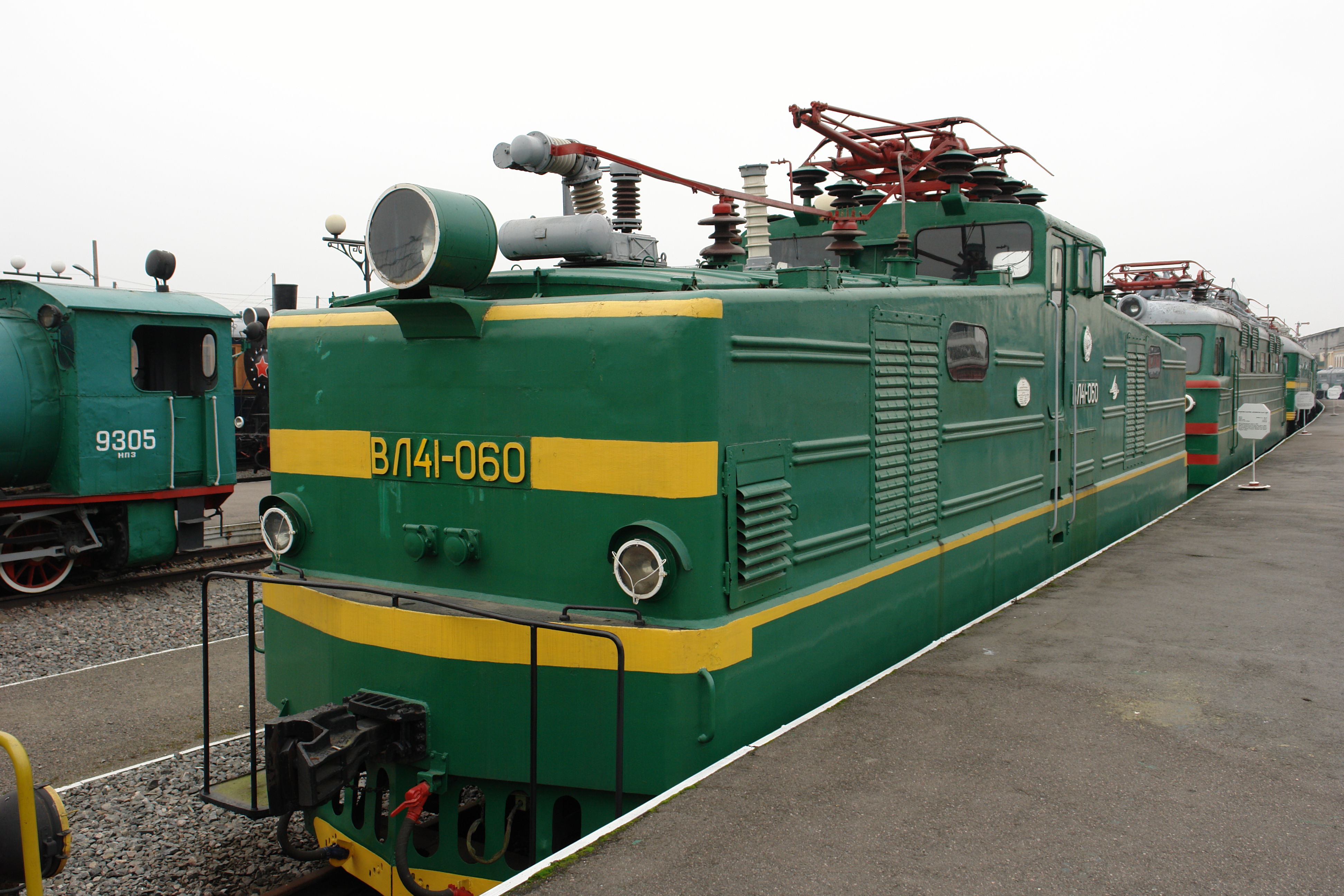 shunting electric locomotive VL41-060 Система токапеременный 25 кВСлужебный вес92 тКонструкционная скорость70 км/чЧасовая мощность1700 кВт Построен Днепропетровским электровозостроительным заводом в 1964 г. Всего в 1963-1964 гг. построено 78 локомотивов этой серии для маневров на сети магистральных ж.д. Собственность Центрального музея железнодорожного транспорта РФ. Поступил с Северо-Кавказской ж.д. Центральный музей Октябрьской железной дороги, Санкт-ПетербургDate27 October 2007Sourceself (photo from Центральный музей Октябрьской железной дороги)AuthorGeorge ShuklinPermission (Reusing this file) Own work, share alike, attribution required (Creative Commons CC-BY-SA-2.5)